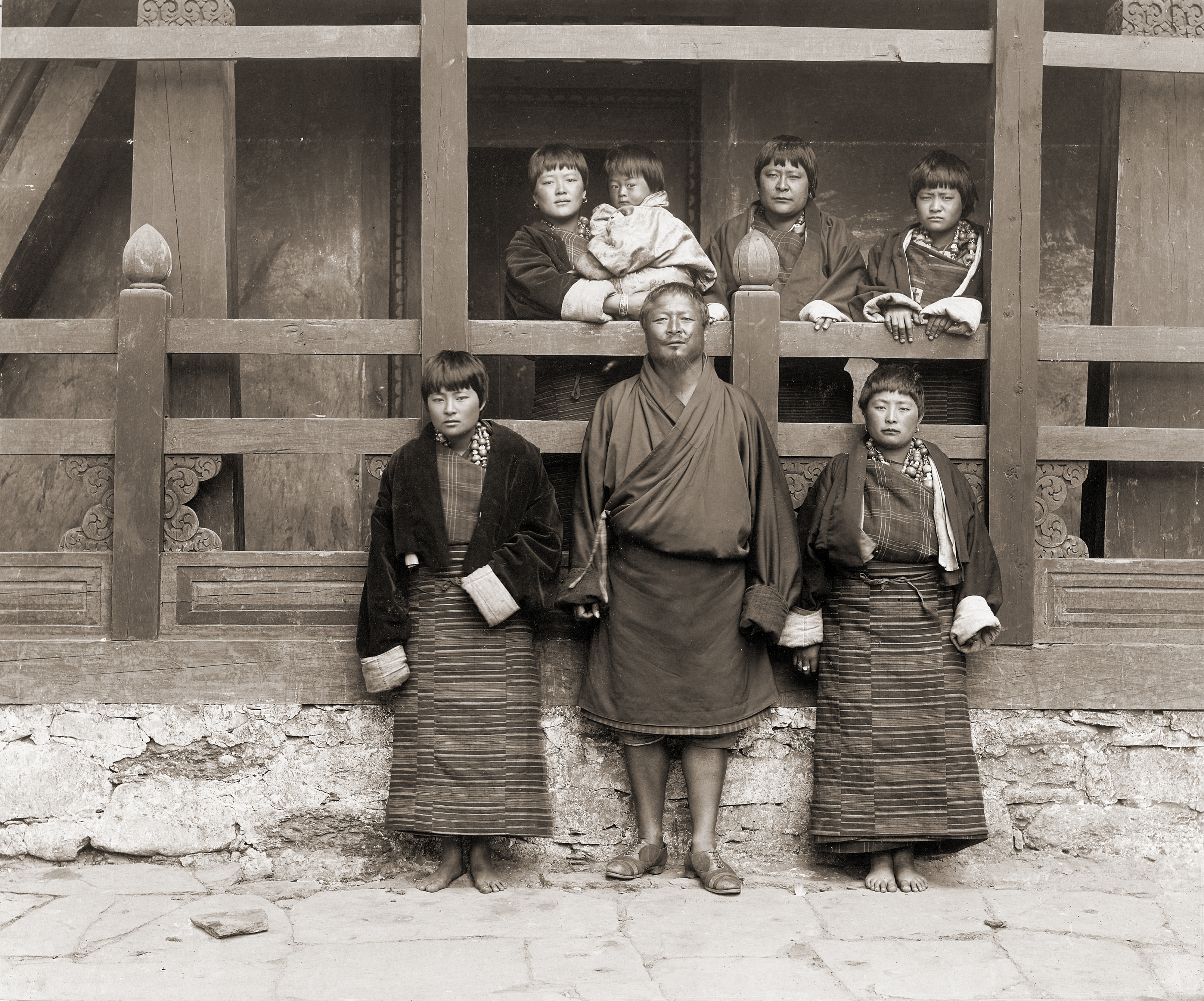 Sir Ugyen Wangchuck (center) and his family — in Punakha, the old capital of Bhutan, in 1905. Front row - eldest daughter of Thimbu Jongpen, Tongsa Penlop, sister of Tongsa Penlop. Back row (on verandah) - younger daughter also married to nephew, grandson of Tongsa Penlop, eldest daughter of Tongsa Penlop's sister, eldest daughter married to nephew of Tongsa. Top left, his wife Tsundue Pema Lhamo and their son, Jigme Wangchuck. He became the first King of Bhutan in 1907.